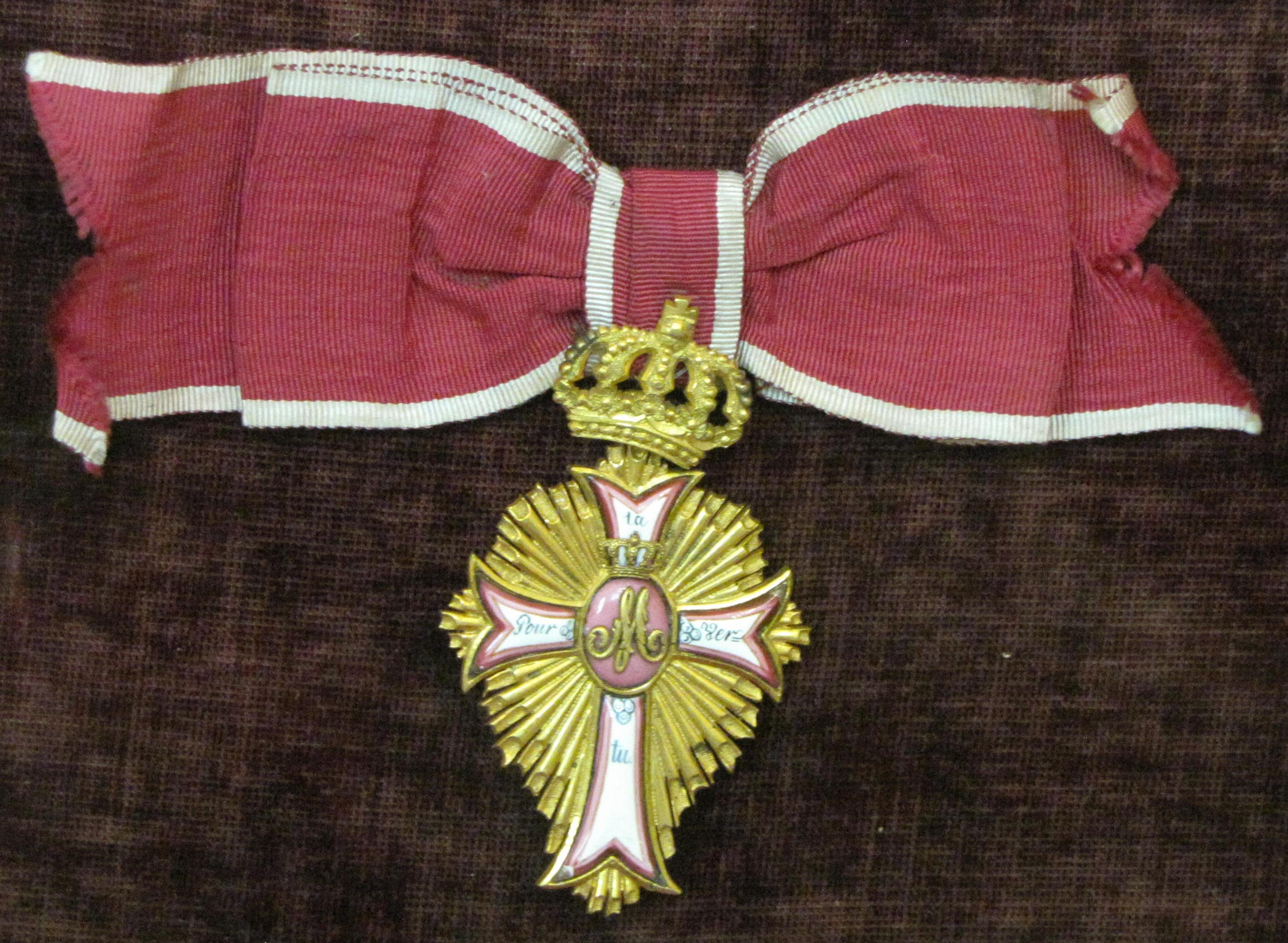 Ribnitz, Klosterkirche, Nonnenchor: Klosterorden Pour la vertu, Ausführung für Malchow